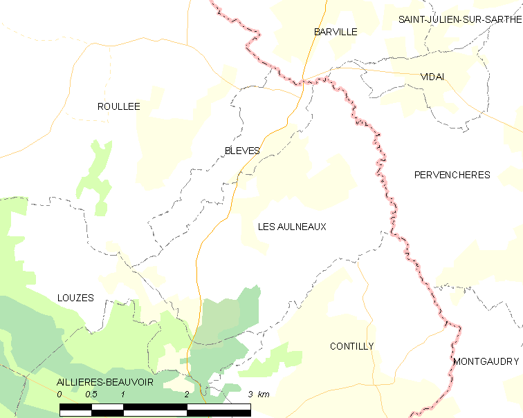 Map of French municipality